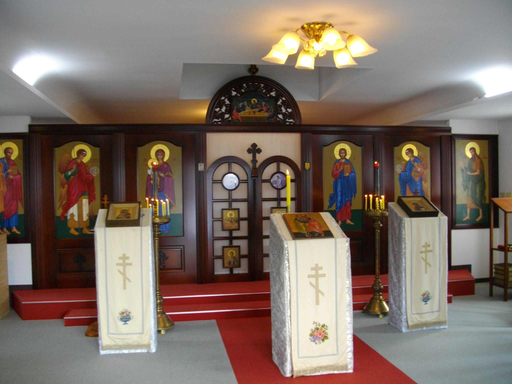 Interior of the Orthodox Church in Kanuma, Tochigi, belonging to the Autonomous Orthodox Church in Japan.